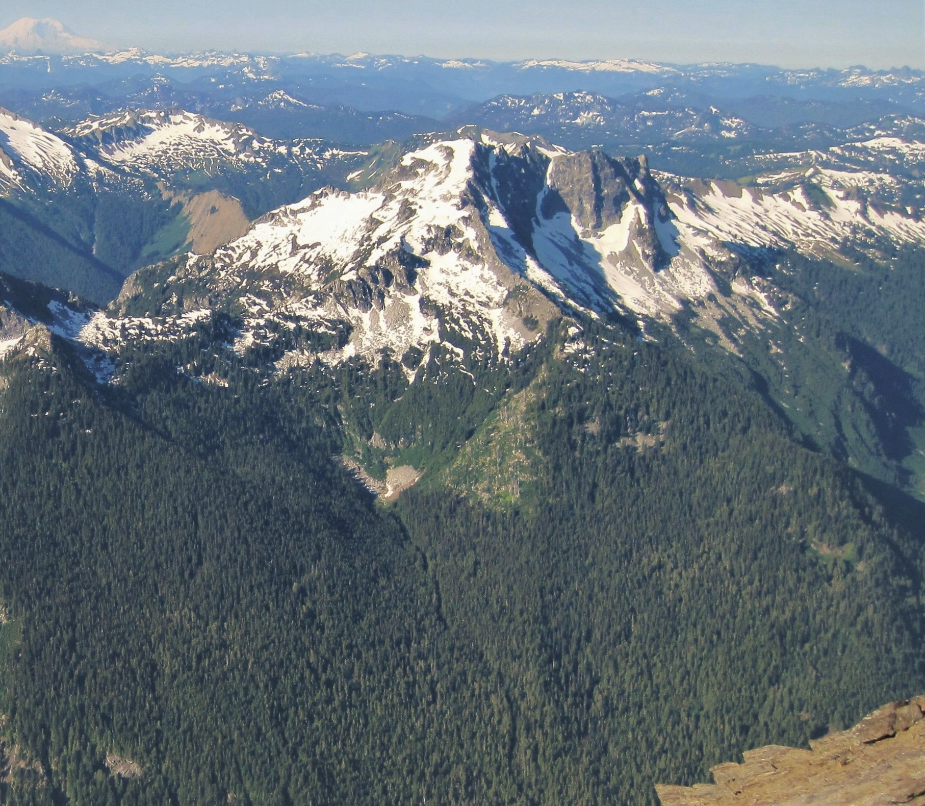 Mount Saul from Clark Mountain